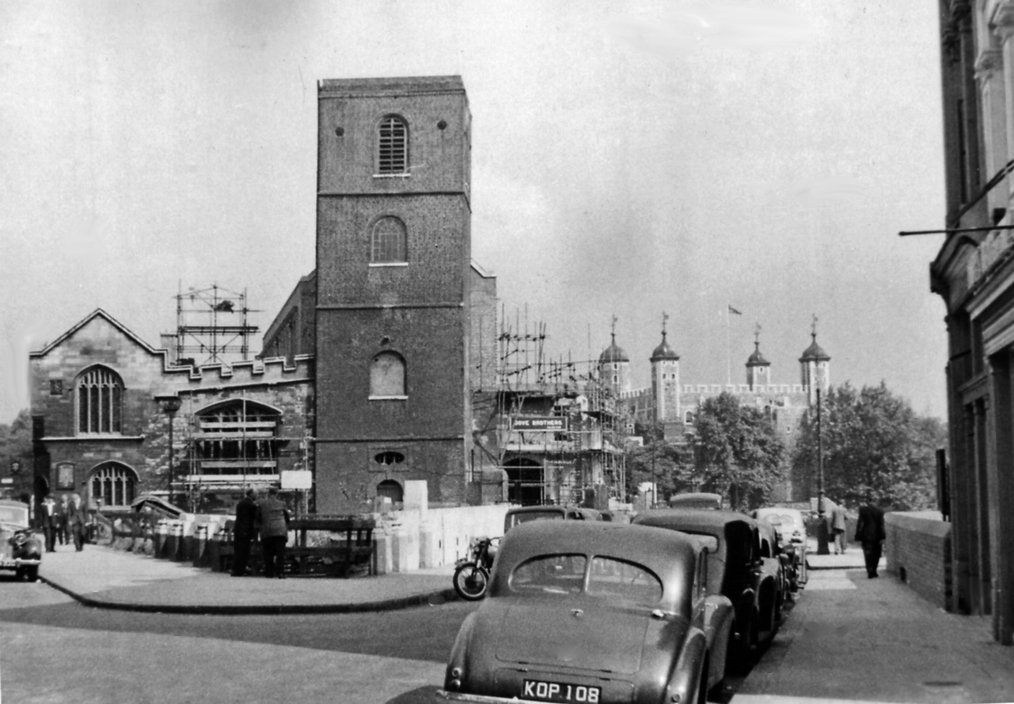 Church of Allhallows-by-the Tower and view along Great Tower Street to the Tower of London, 1955. View eastward, with Byward Street to the left.